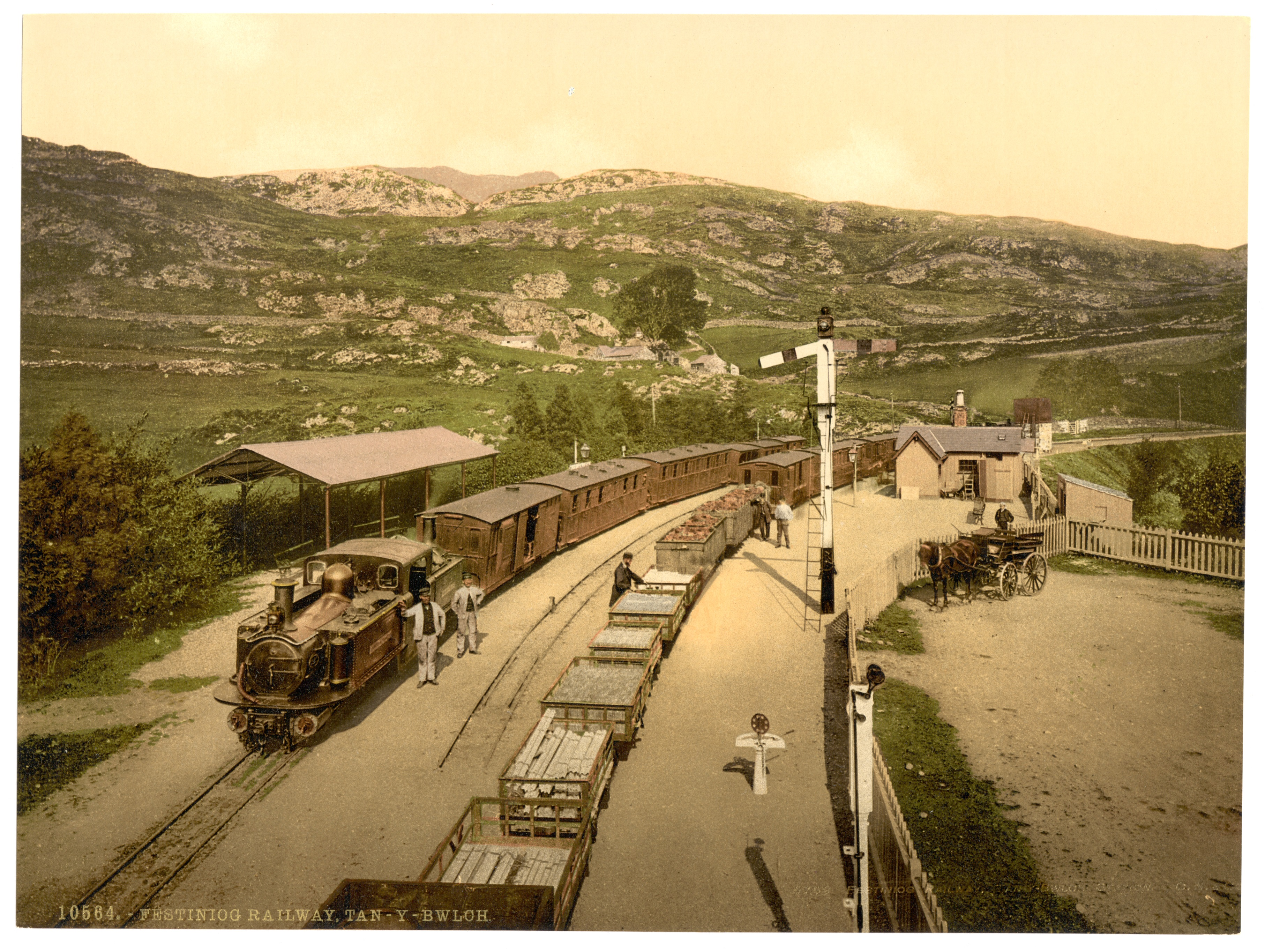 Two trains of the Ffestiniog Railway at Tan y Bwlch Station